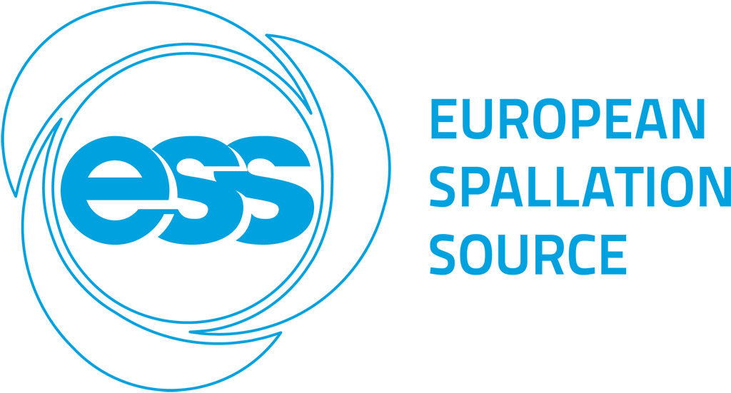 European Spallation Source